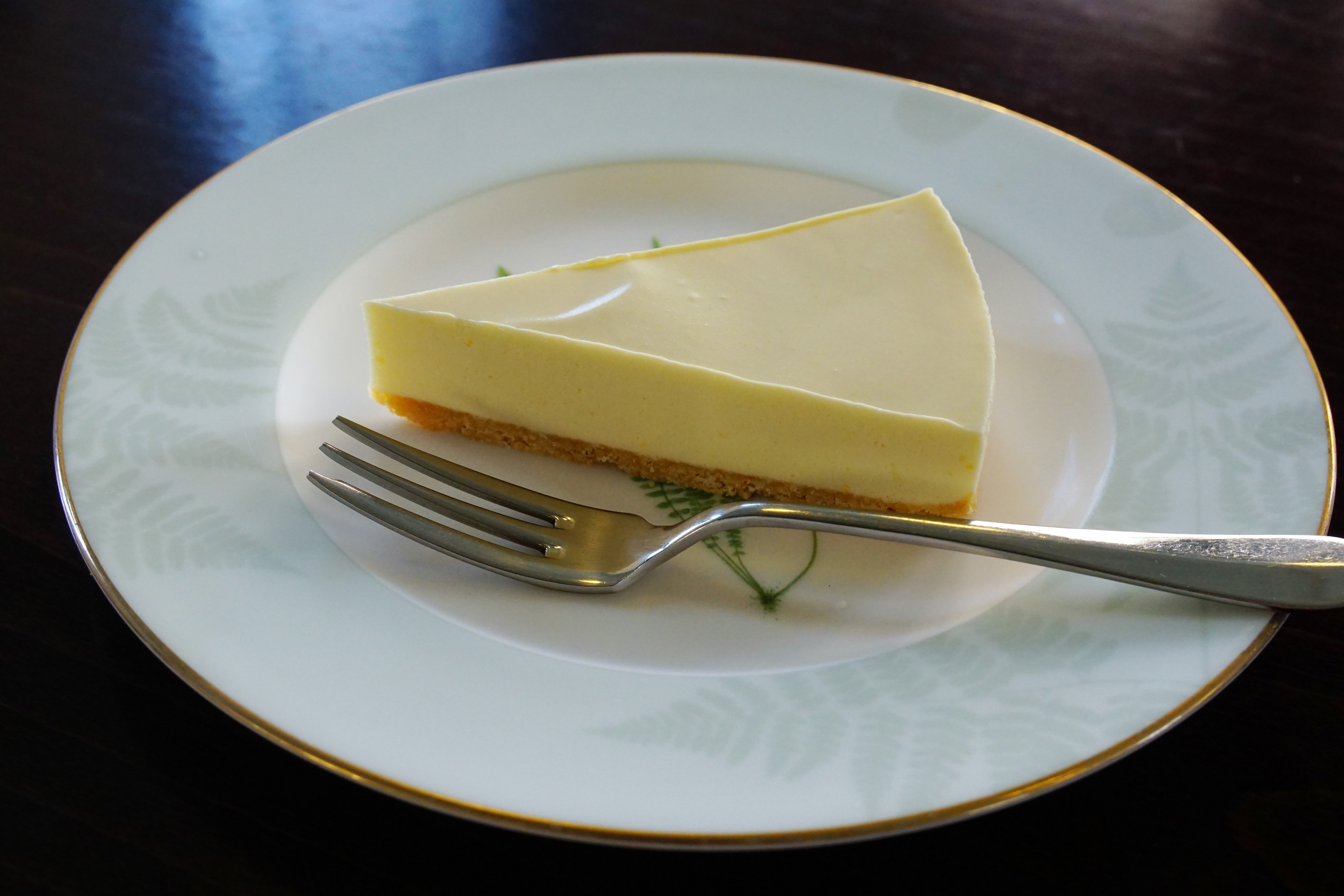 Ao-i-rihatsukan in Shimabara, Nagasaki prefecture, Japan.